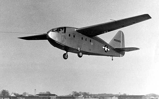 Chase XCG-14 glider being towed aloft.